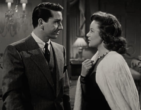 Richard Conte & Susan Hayward in House of Strangers - trailer (cropped screenshot)